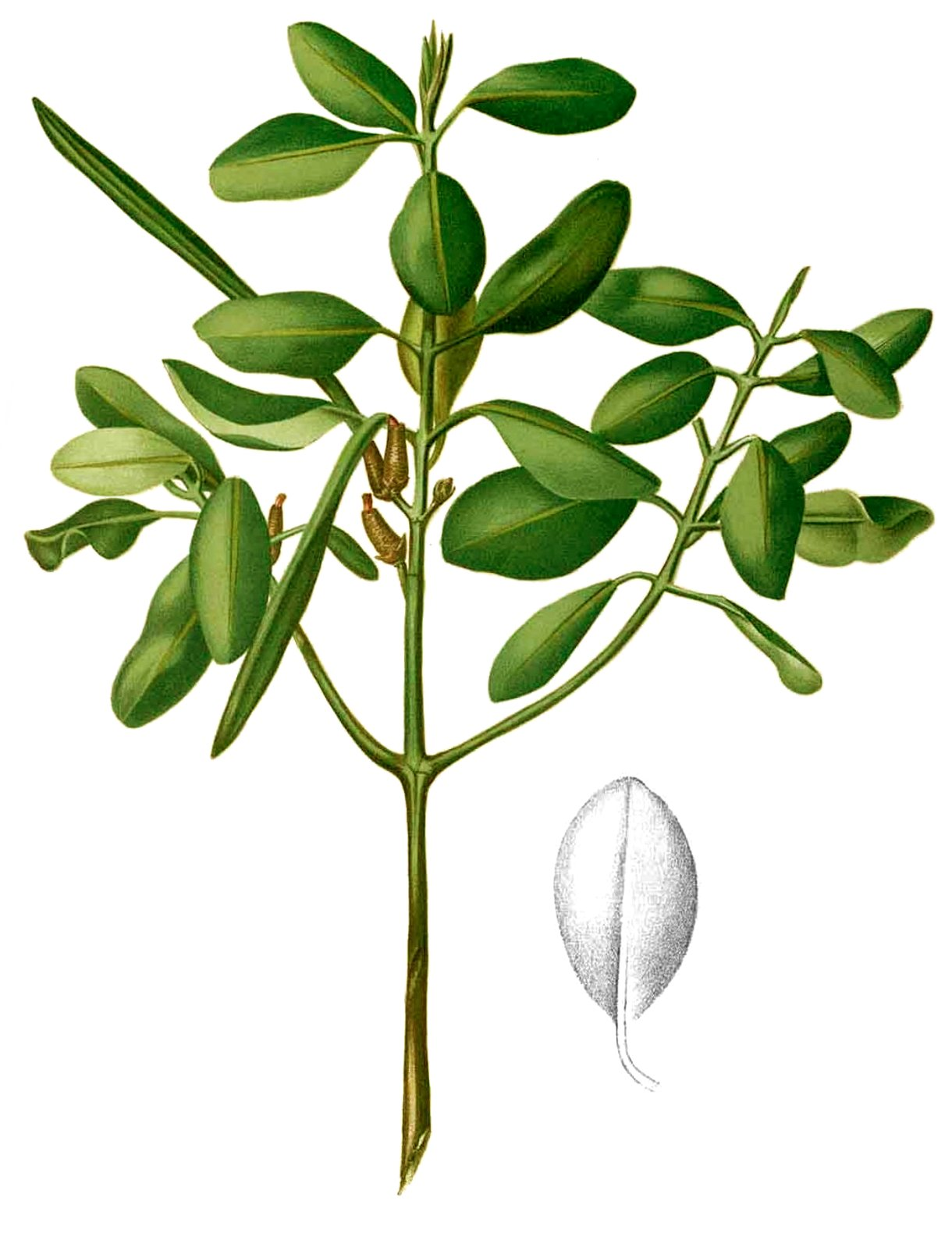 Plate from book